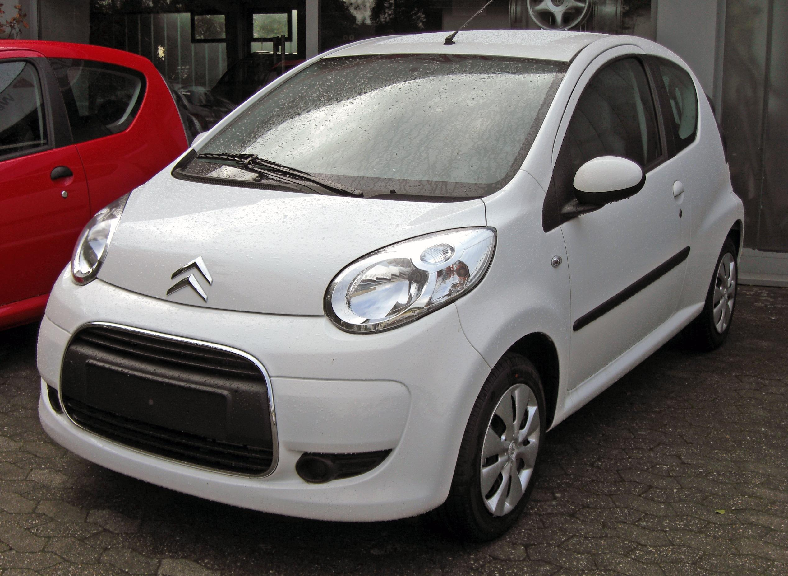 Citroën C1